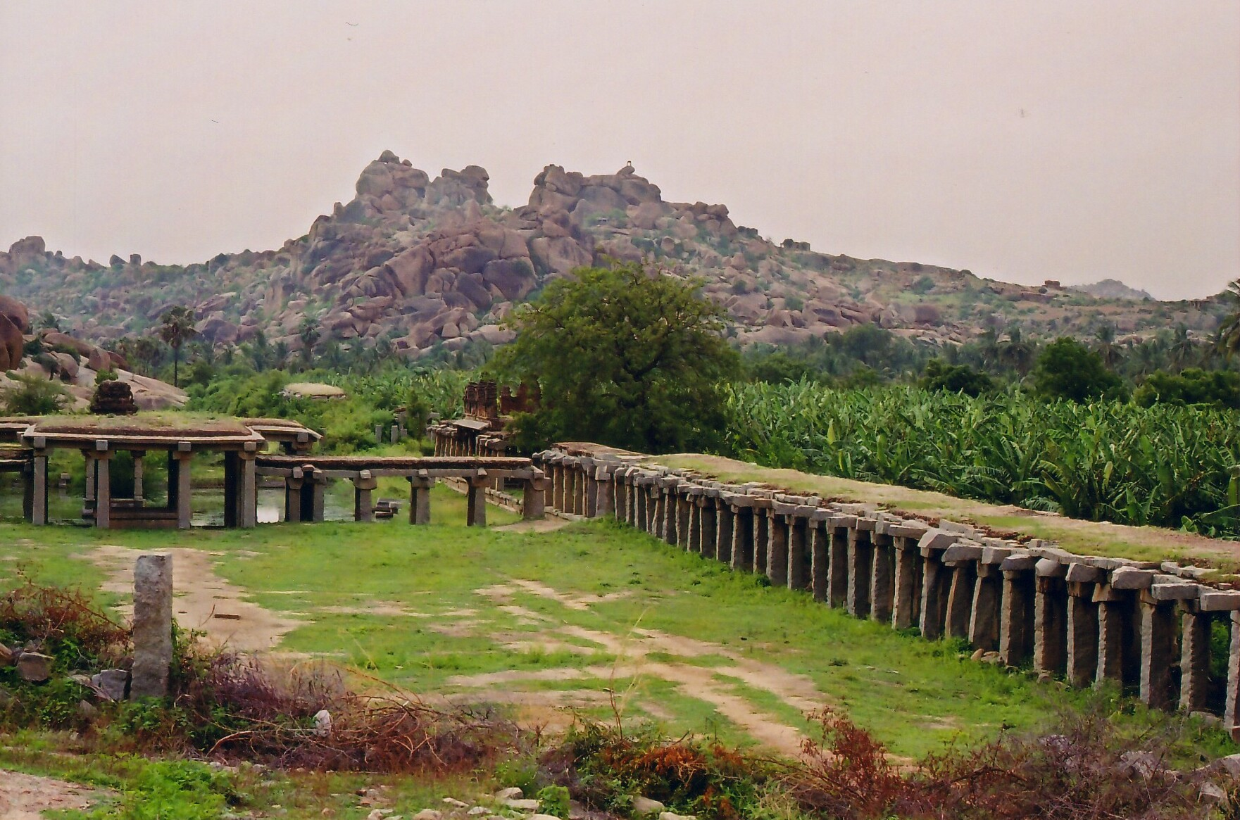 Photograph taken by self (Dineshkannambadi) at Hampi, Karnataka state, India in June 2004. (An ancient market place)